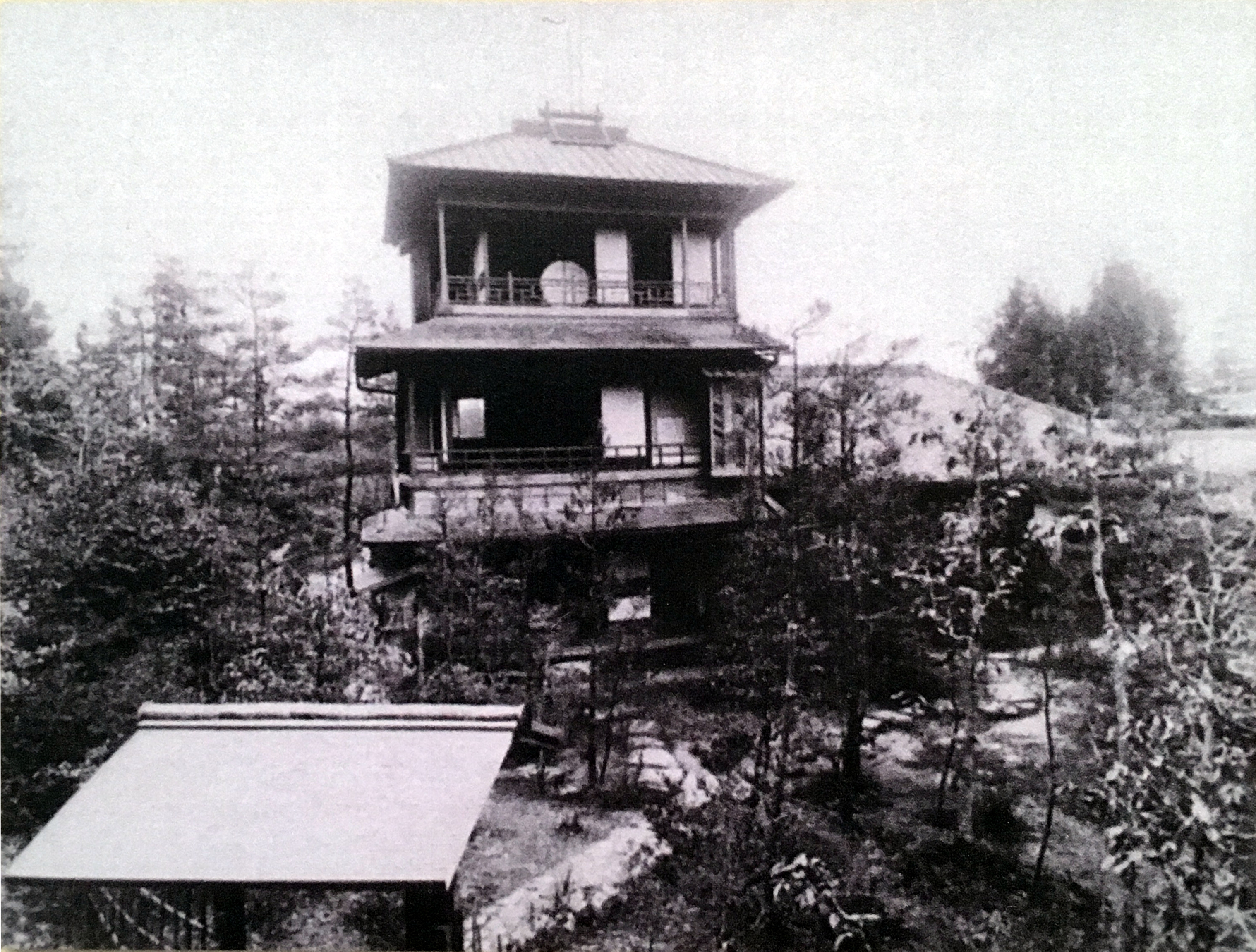 The Tokugawa residence in Ozone, Nagoya, central Japan.